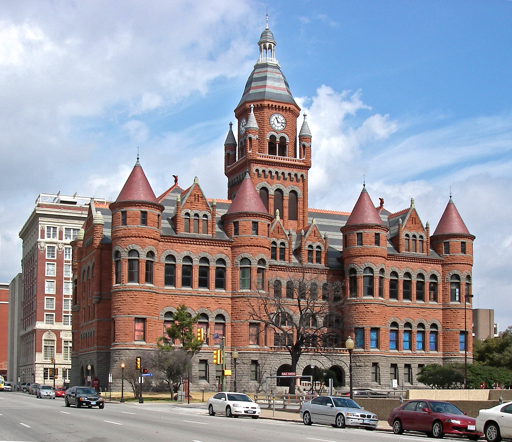 Dallas County Courthouse (Texas), also known as Old Red, built in 1892.